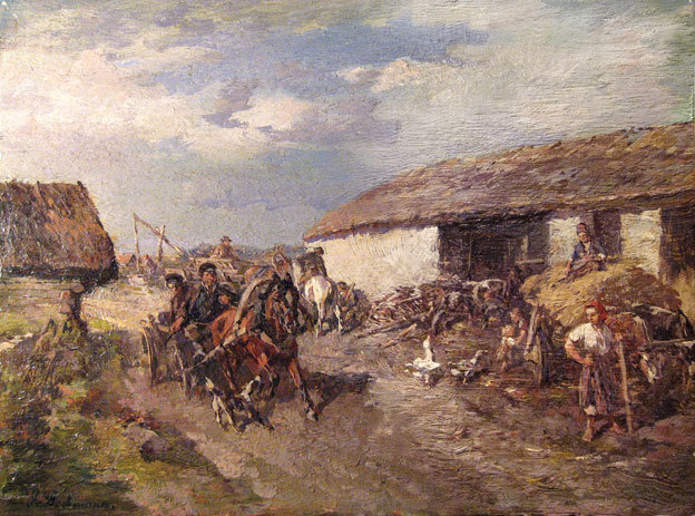 Gregor von Bochmann "Estonian Village Road", Oil on wooden board, 16,5x23 cm